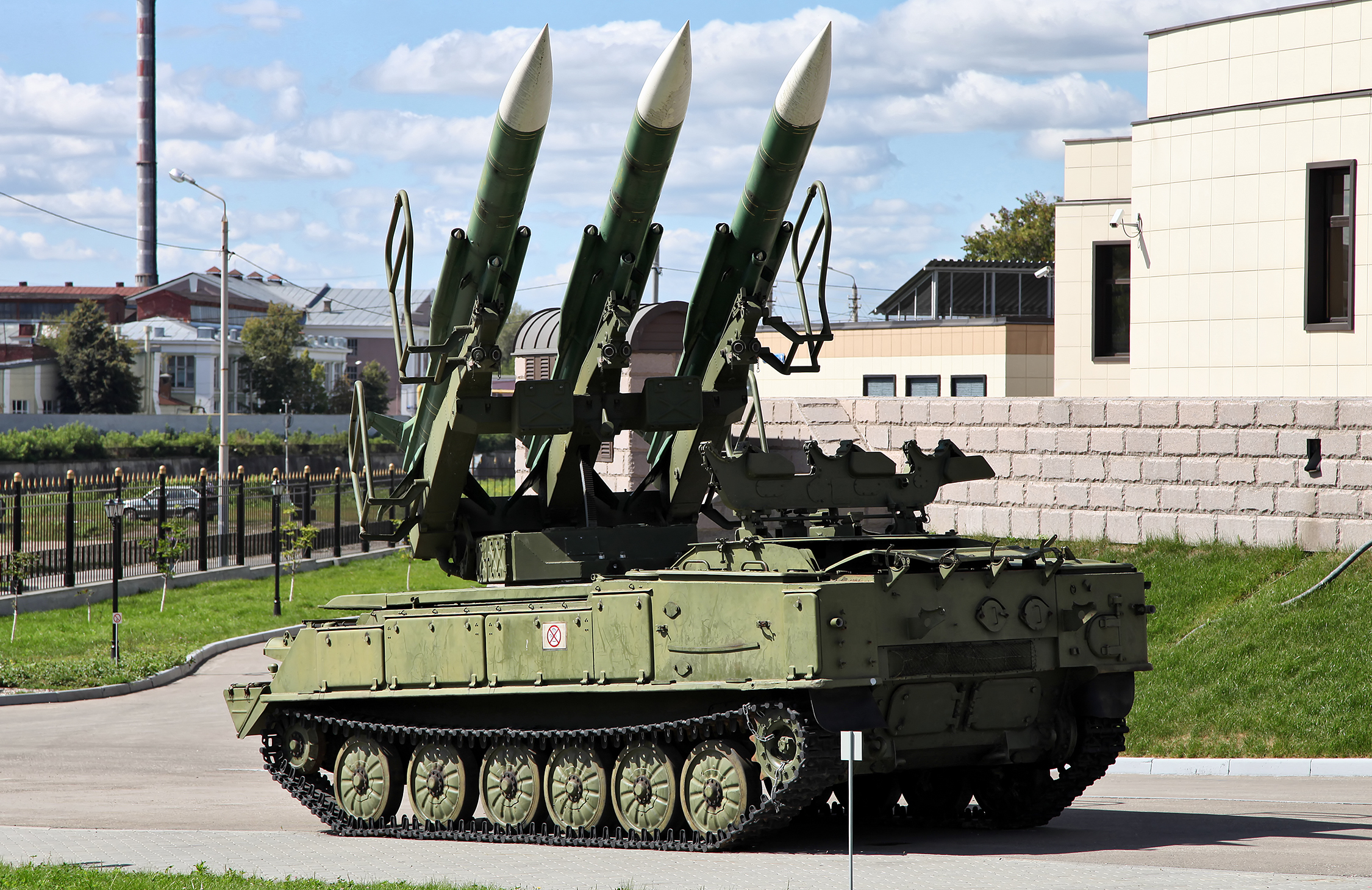 2P25M1 TEL from Kub-M1 air defence system